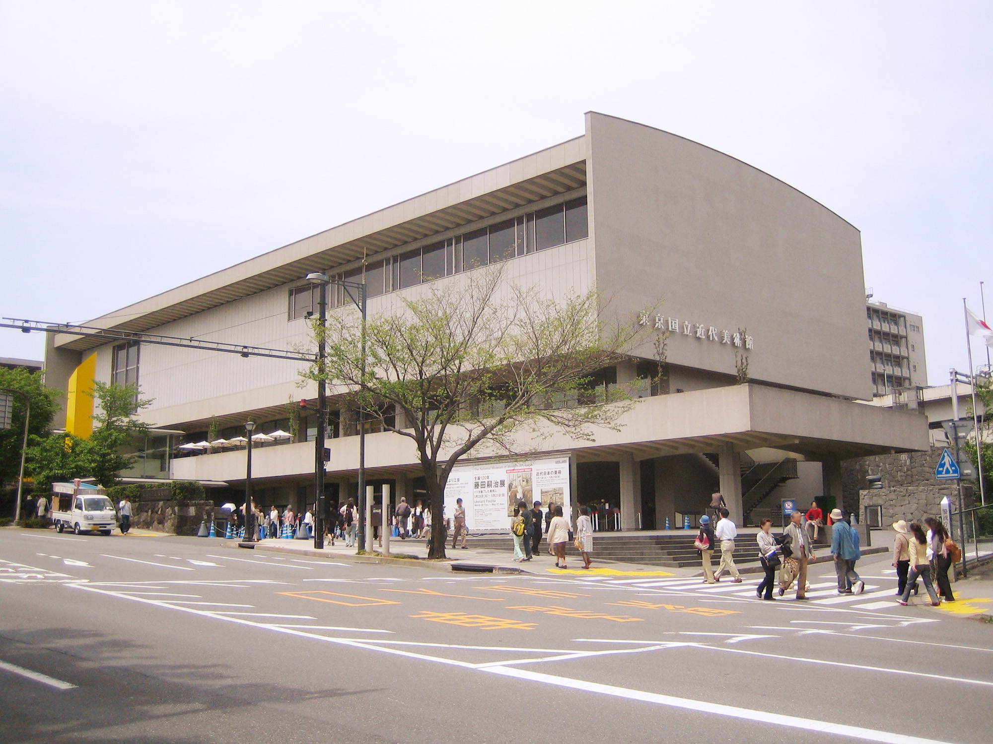 National Museum of Modern Art, Tokyo (東京国立近代美術館), Chiyoda, Tokyo, Japan